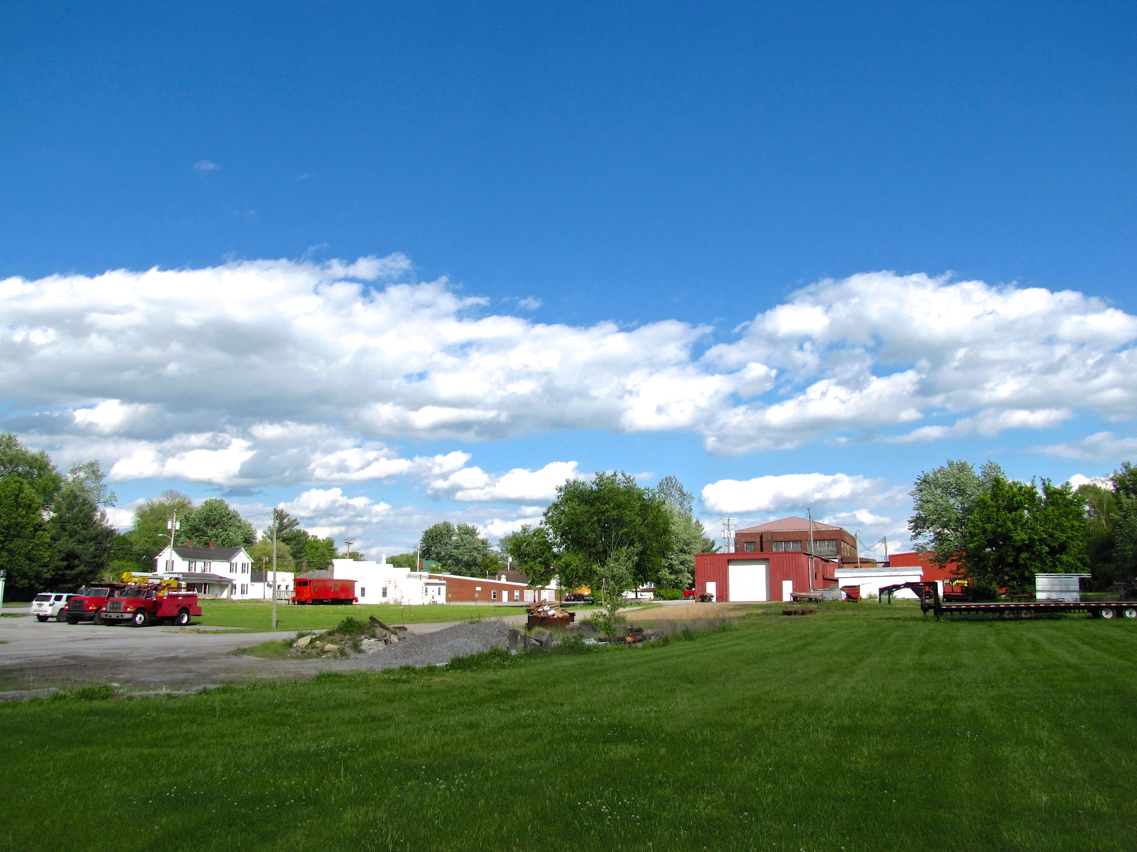 Junction City, Kentucky, United States, looking east from Lucas Street.